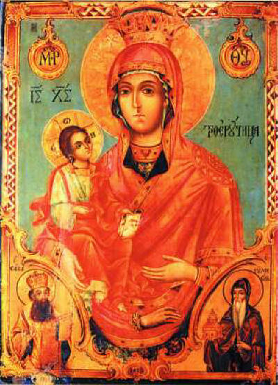 Troeruchitsa